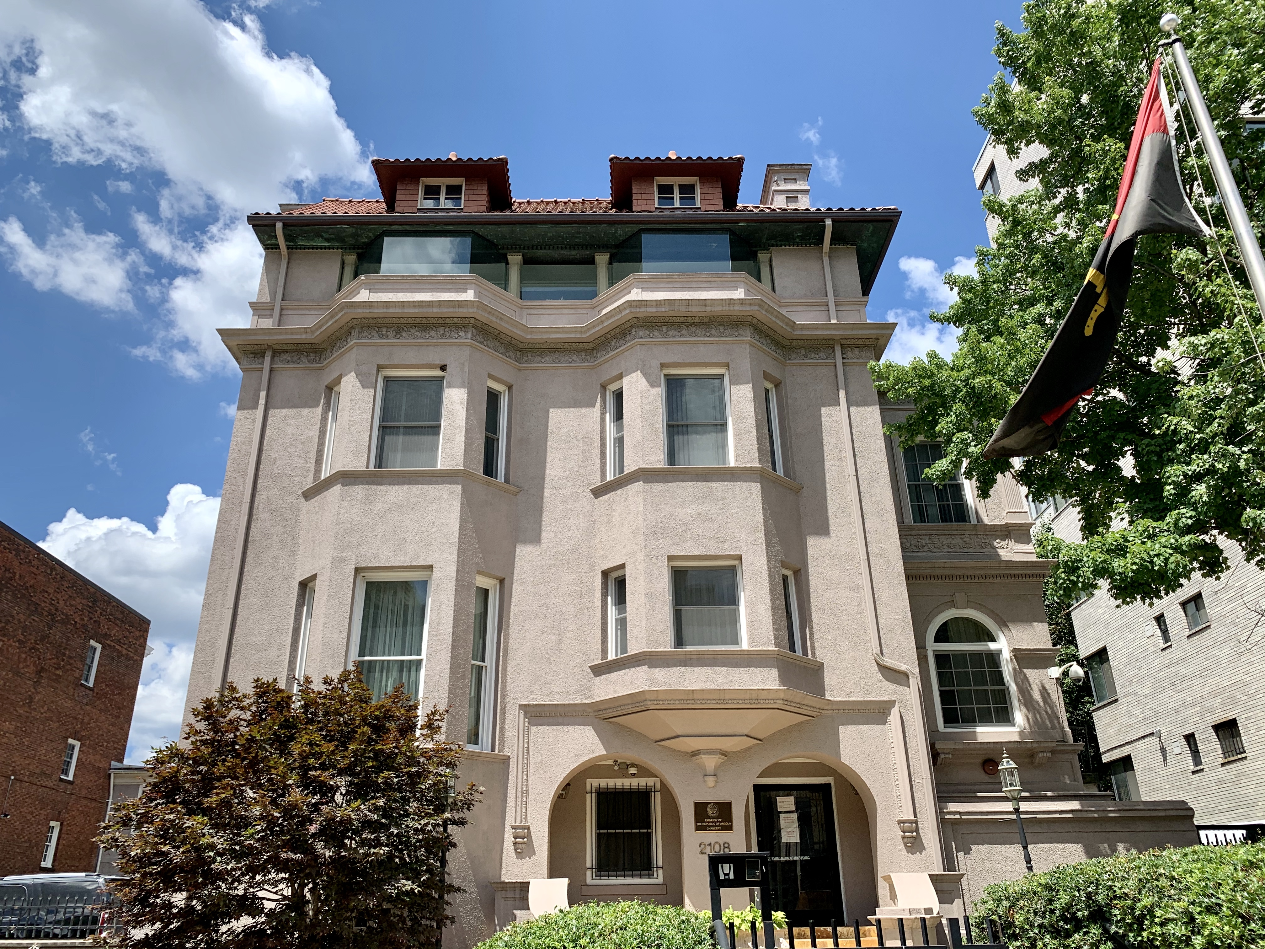 The Embassy of Angola is the diplomatic mission of Angola to the United States. The embassy is located at 2100 and 2108 (pictured; Consular Section and Press Office) 16th Street NW in Washington, D.C. The building pictured was constructed in 1898. Notable past owners of the residence include Thomas Wharton Phillips, Jr. , Arthur Lee, 1st Viscount Lee of Fareham, the Argentine embassy), the Cuban embassy, and the Black Women's Agenda. The building is a contributing property to the Sixteenth Street Historic District.